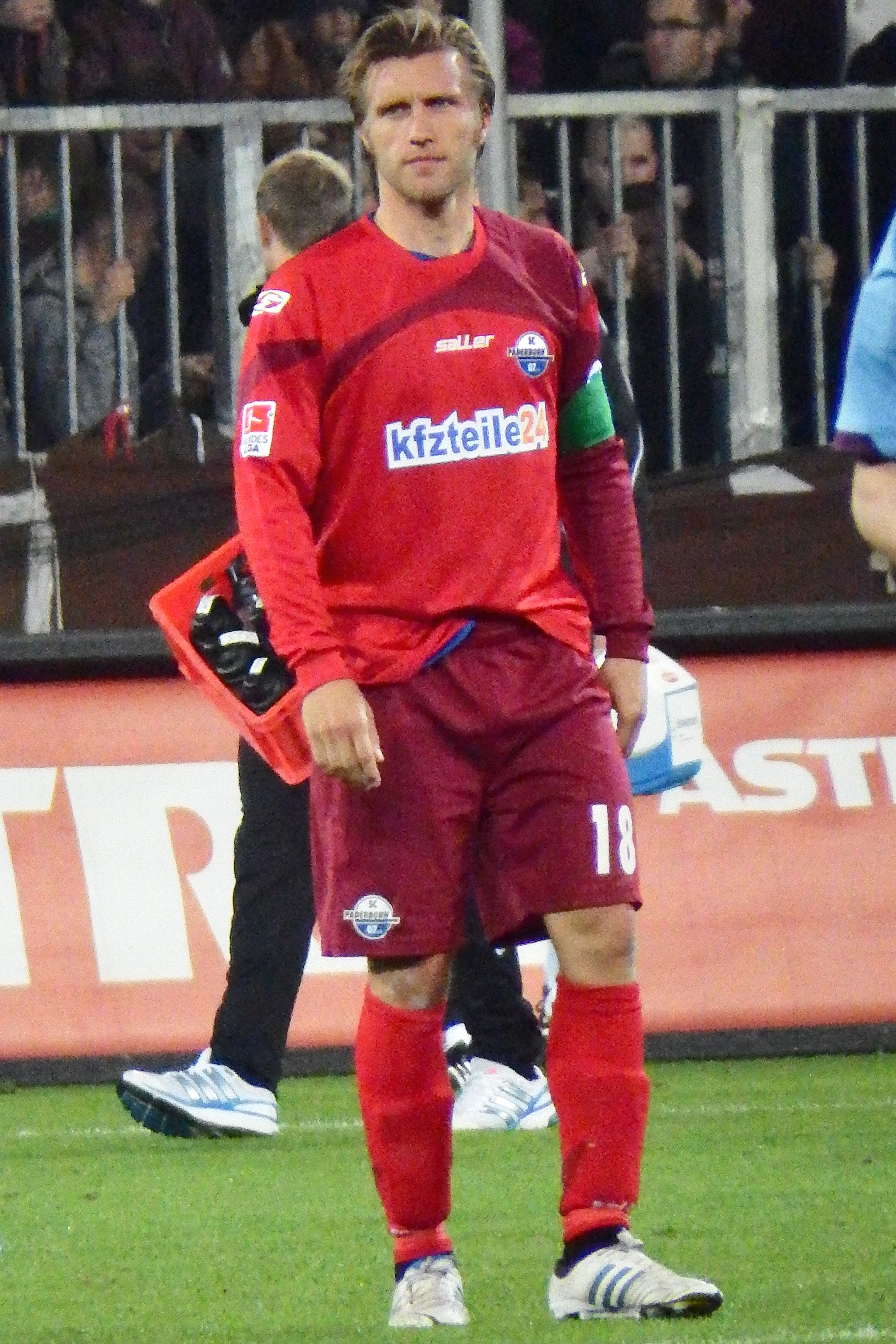 Markus Krösche as Player of SC Paderborn